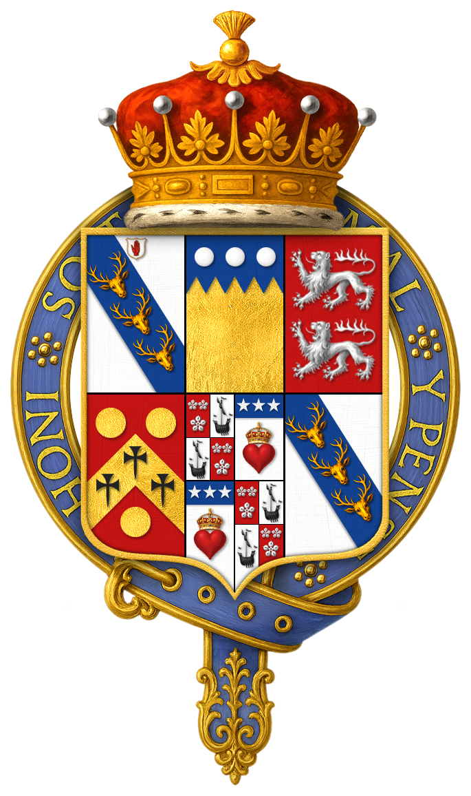 Shield of arms of Edward Smith-Stanley, 13th Earl of Derby, KG